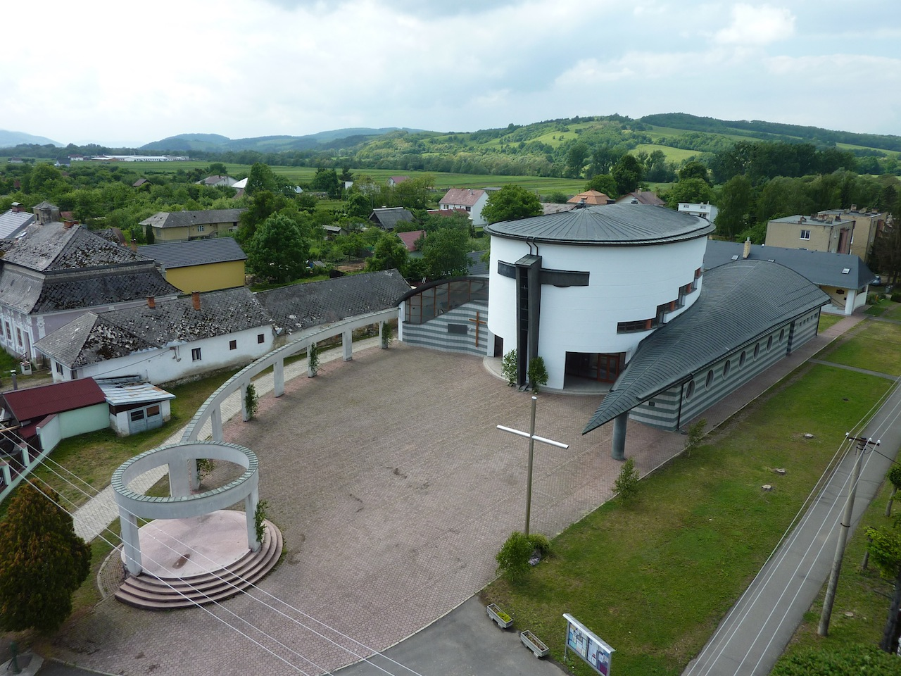 St. Joachim and Anne church Dlhé nad Cirochou.